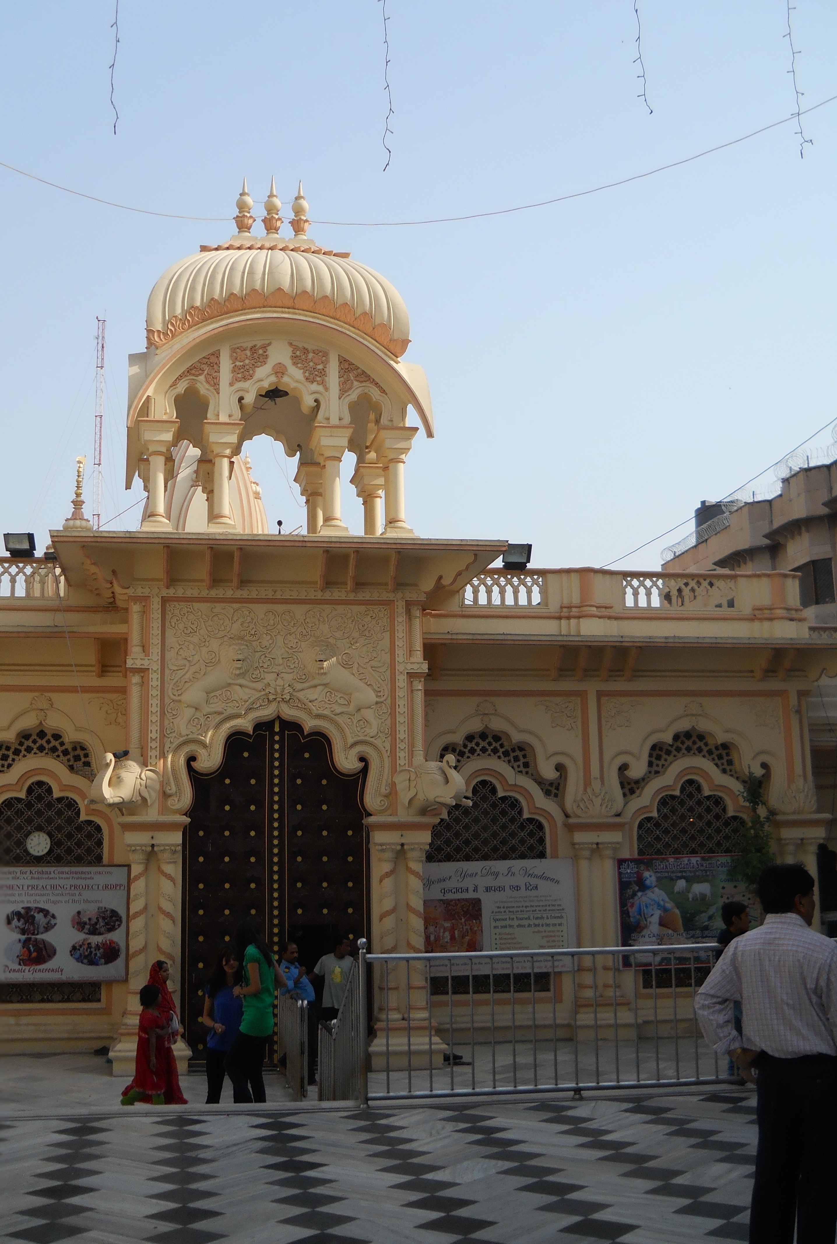 ISKCON Temple at Vrindavan